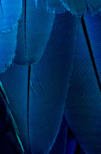 macro of parrot feathers